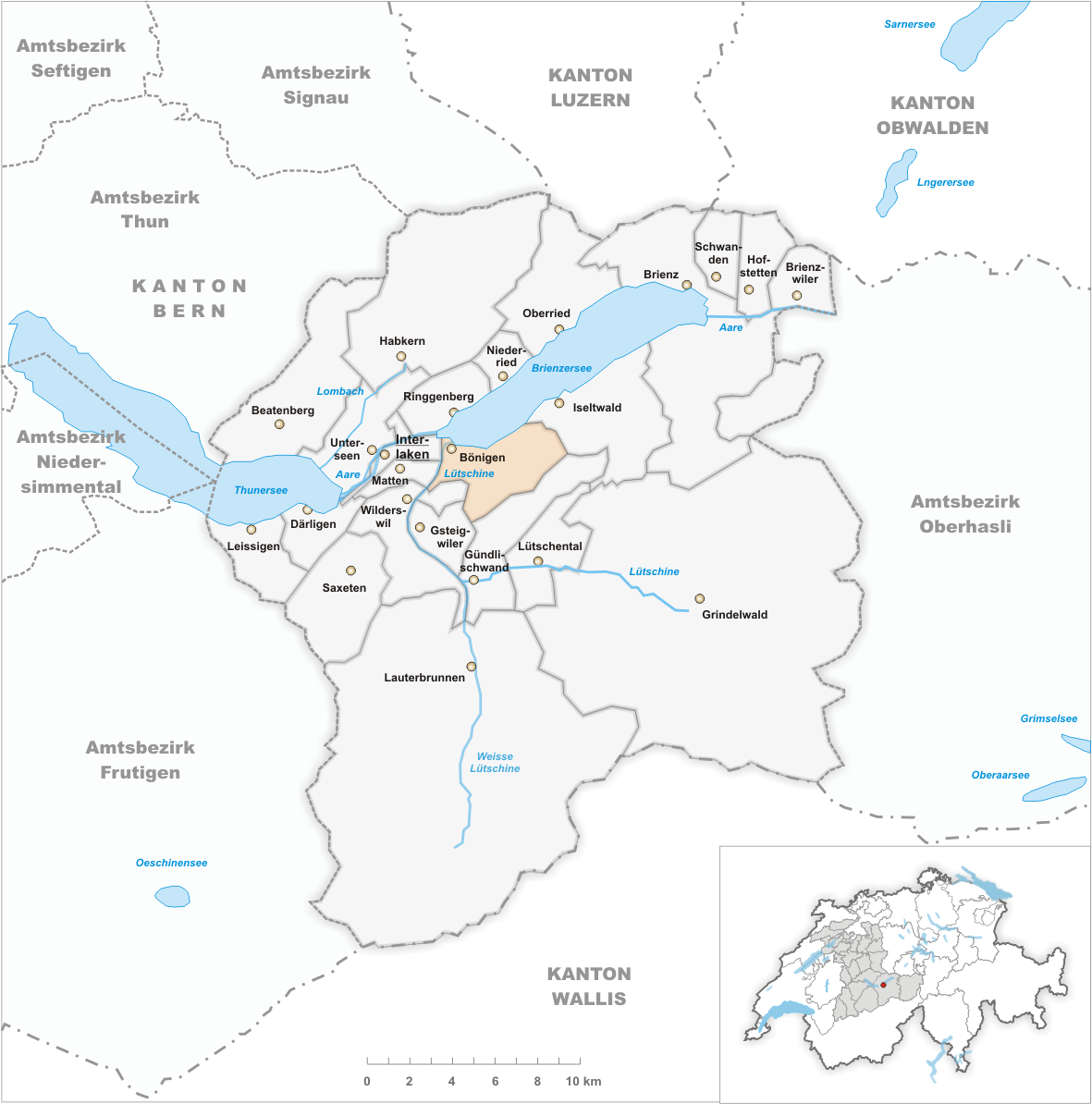 Municipality Beatenberg